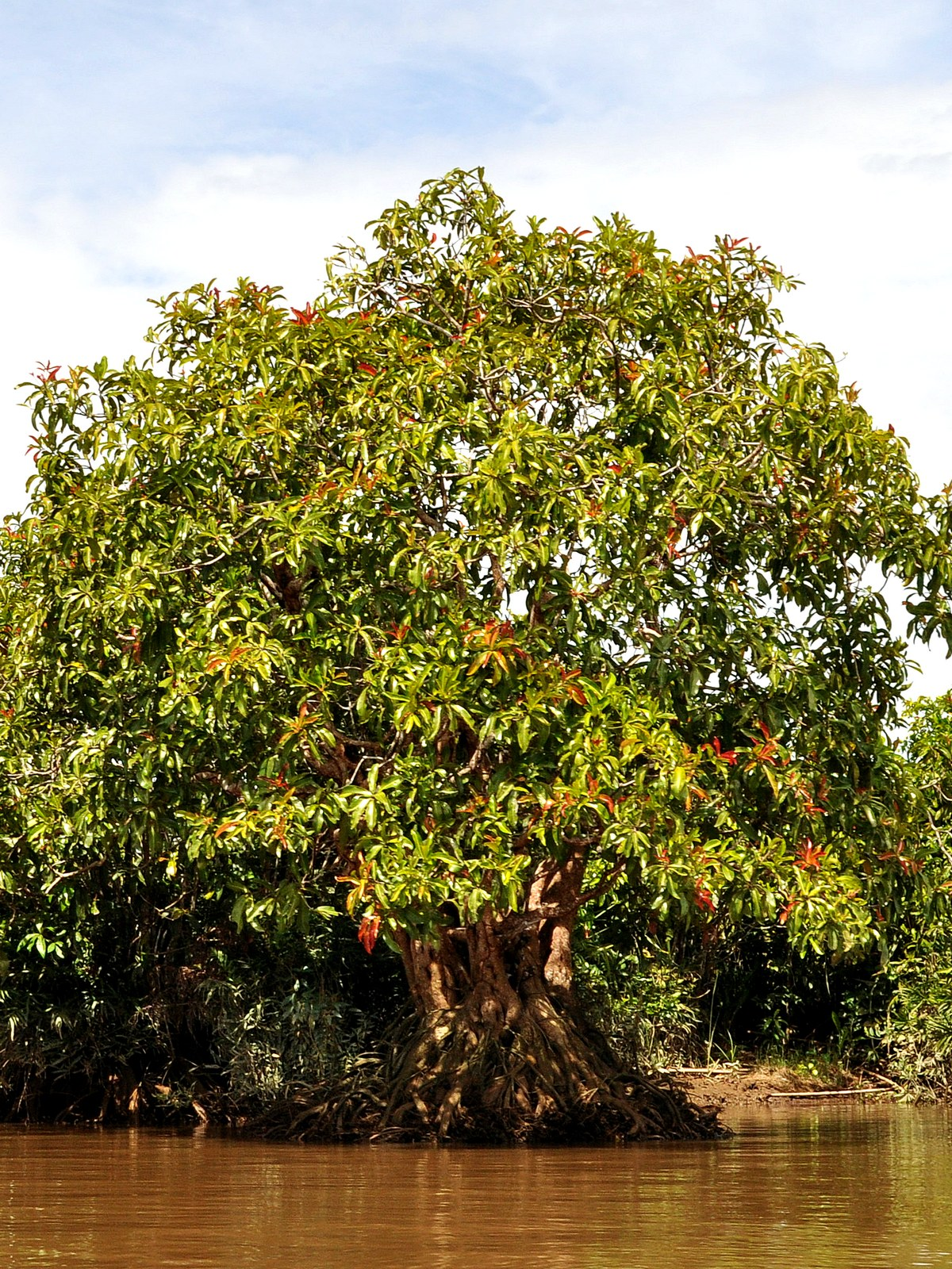 Gluta velutina shrub, at the riverbank of Sambas Kecil River, West Kalimantan, Indonesia